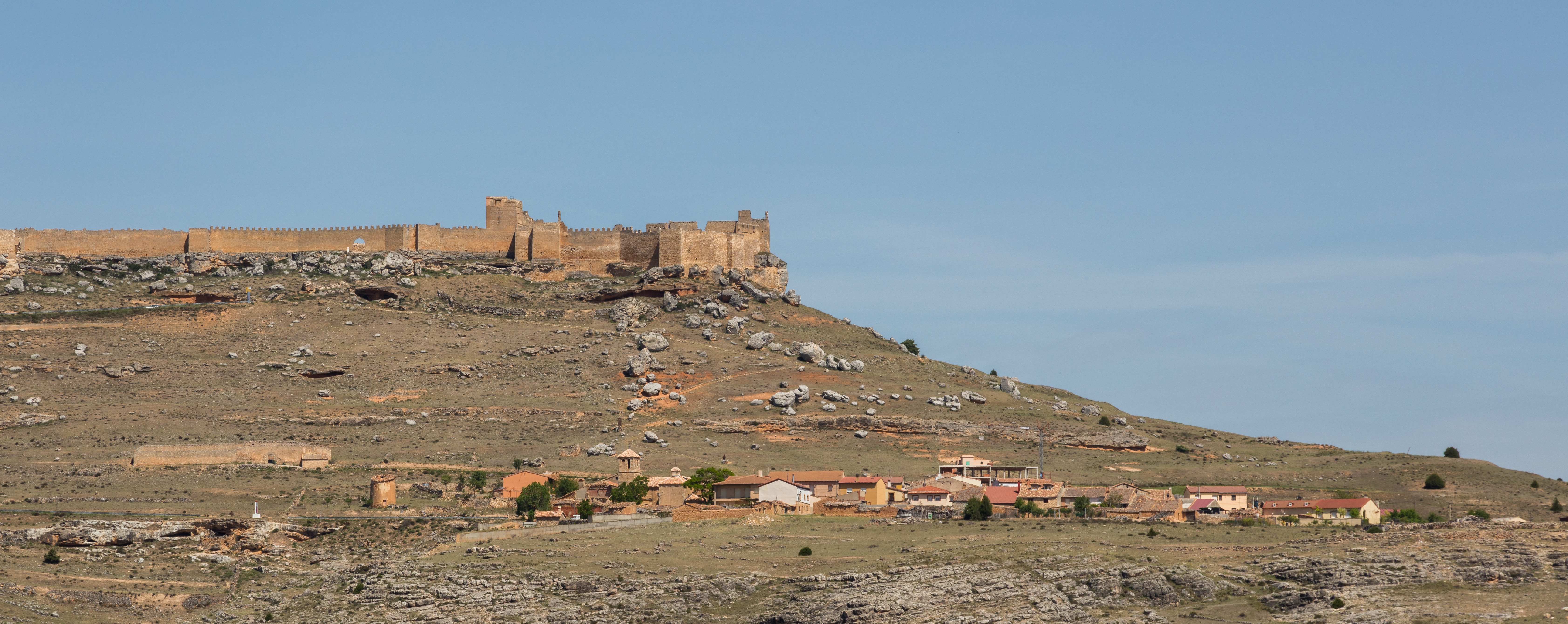 Gormaz, Soria, Spain